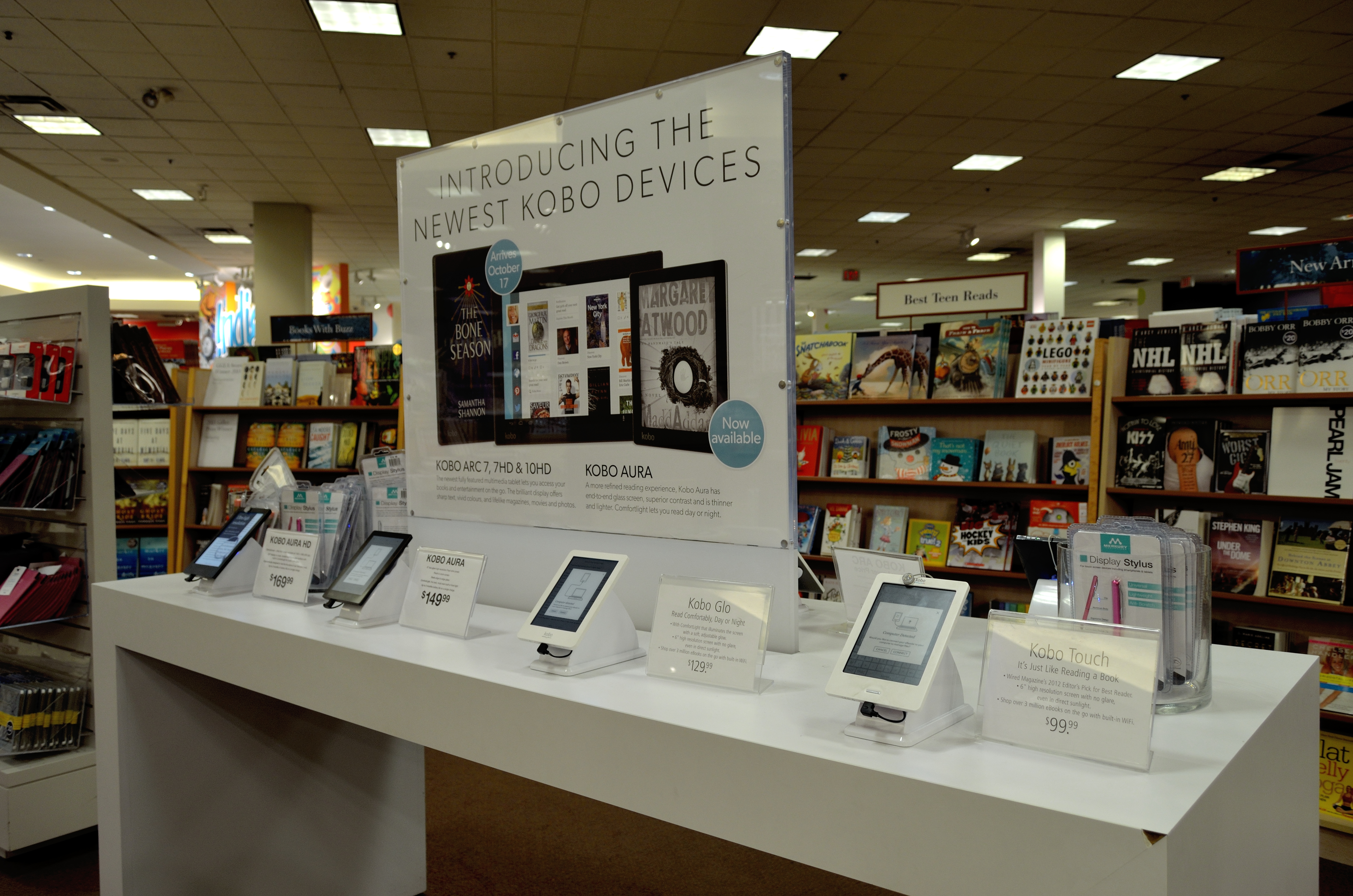 Kobo Booth, Chapters Markham store